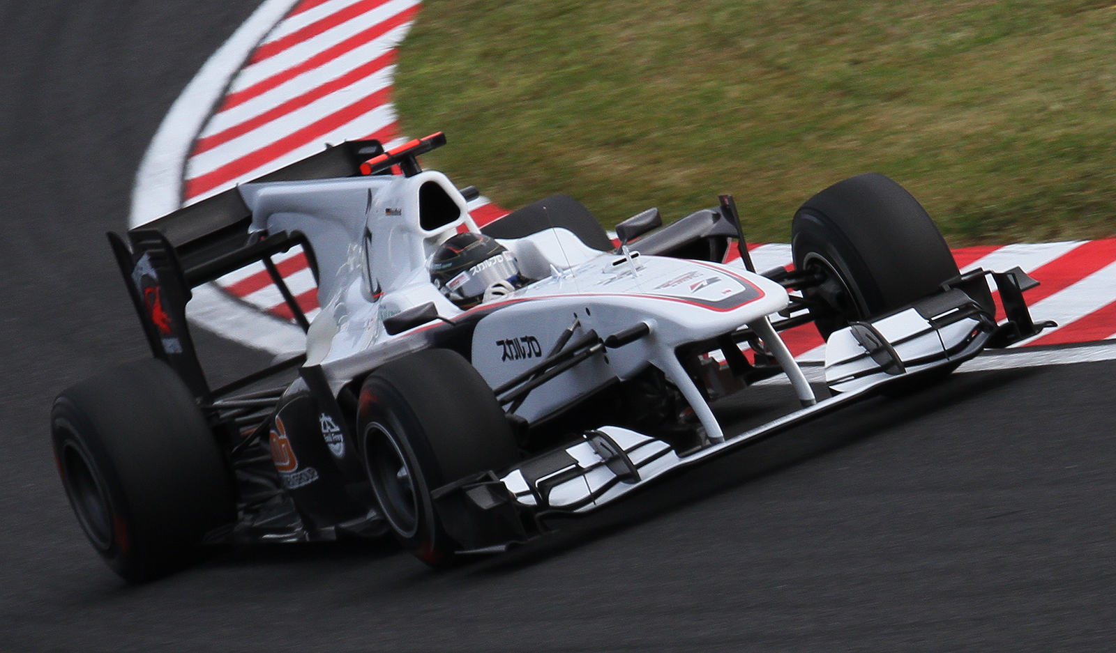 Formula One 2010 Rd.16 Japanese GP: Nick Heidfeld (BMW Sauber) during Friday 2nd Free Practice session.